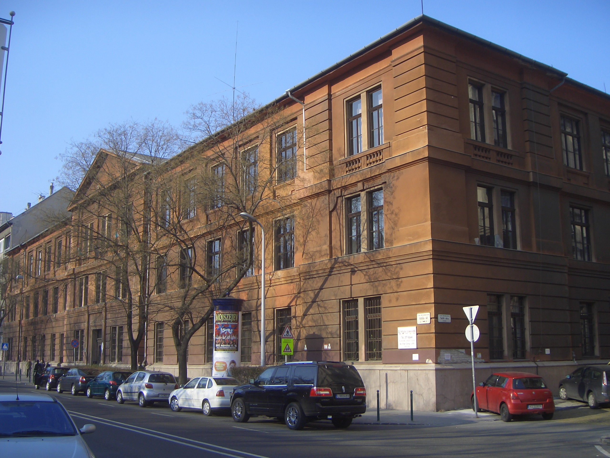 Petőfi Sándor Gymnasium (Grammar School), Budapest, District I, 43 Attila street út.